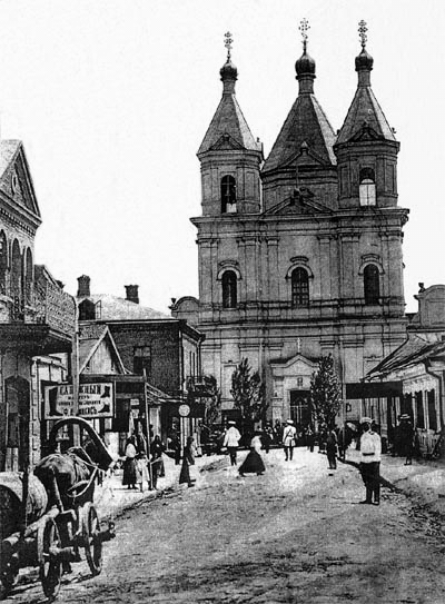 The orthodox cathedral in Vinnytsia, Ukraine.